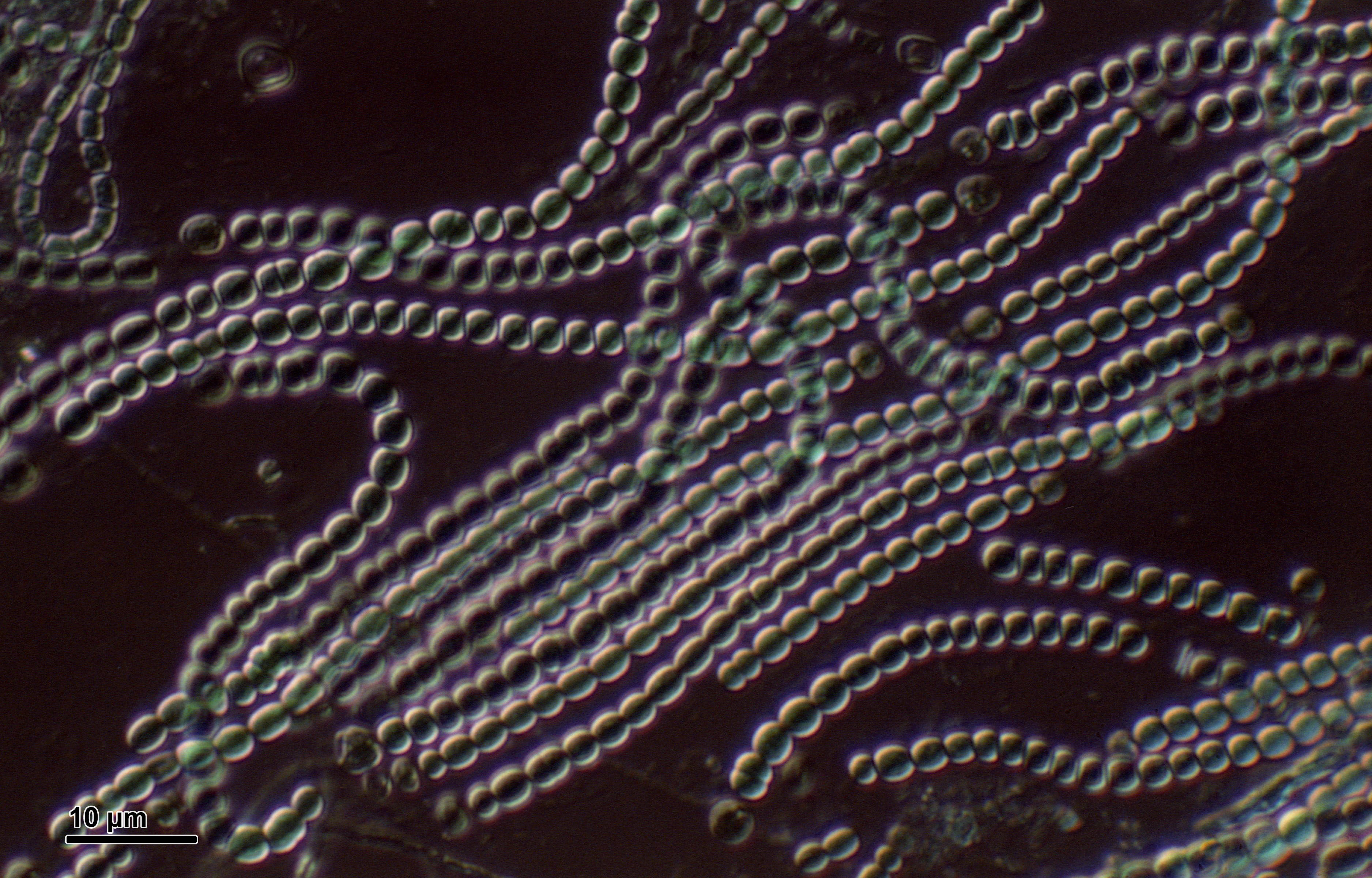 Cyanobacteria (Cyanobacteria): Native preparation. Optical microscopy technique: Differential interference contrast (Nomarski). Magnification: 2400x (for picture width 26 cm ~ A4 format).